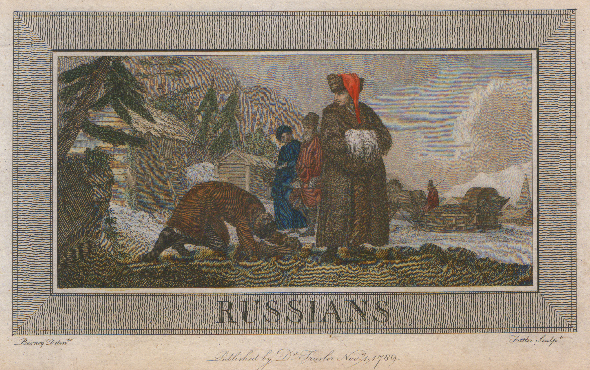 Russians